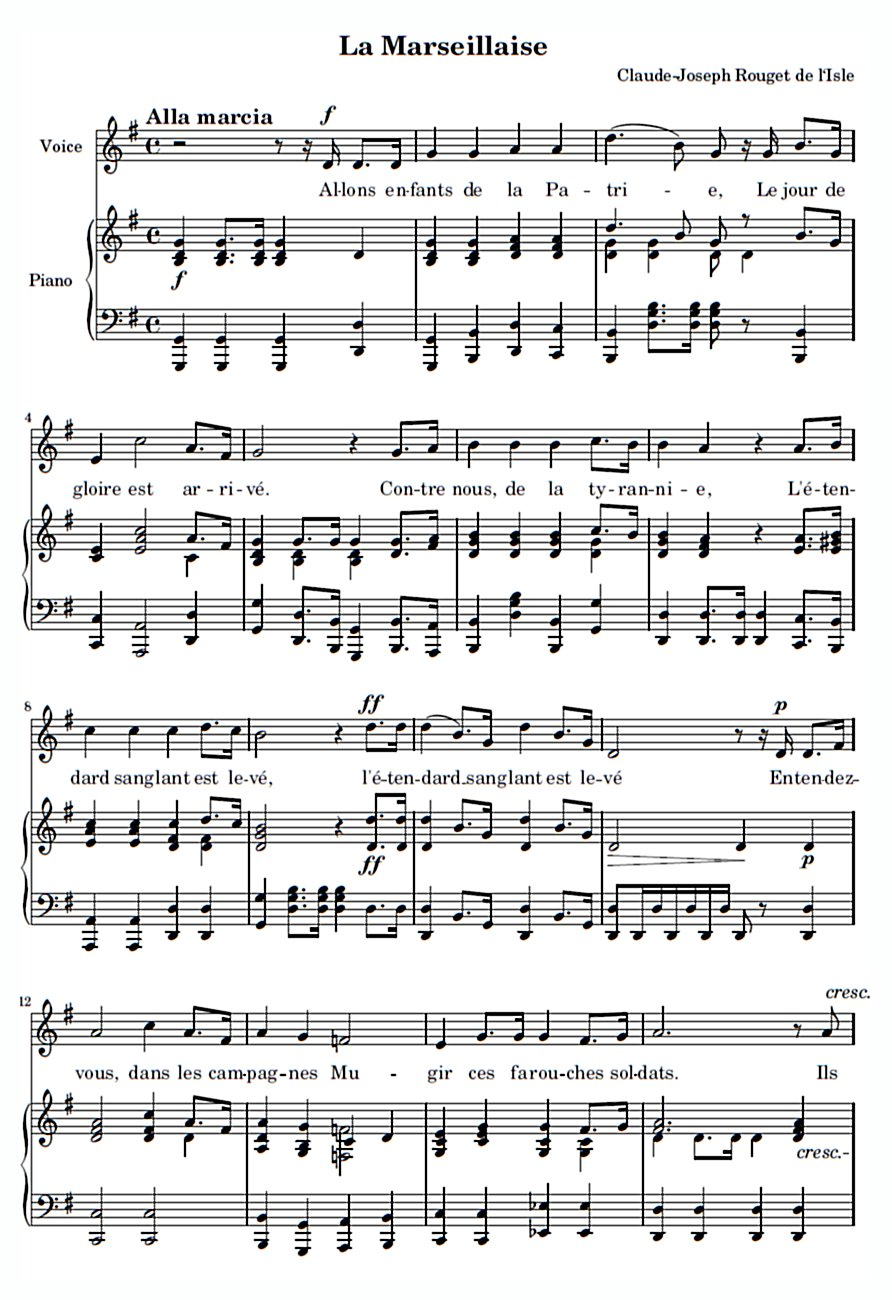 La Marseillaise, 1st page designed by Iain Patterson